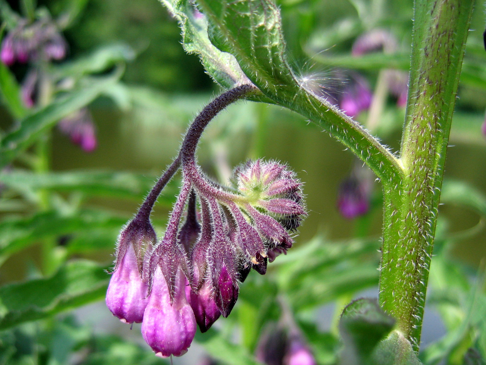 Common comfrey (Symphytum officinale) inflorescence, growing on the bank of the larger pond in the Sołtysowicki Forest, Wrocław, Poland.